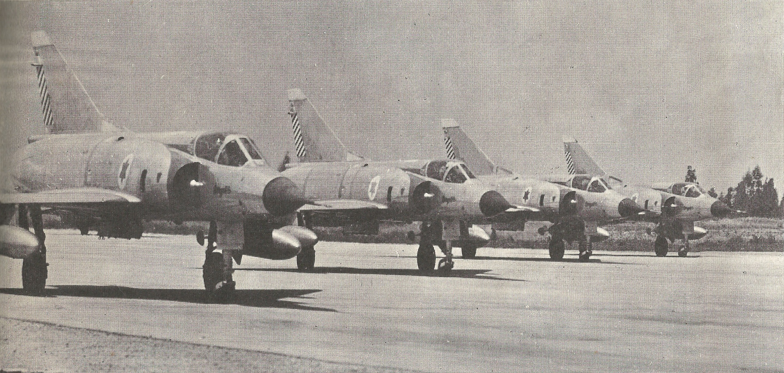 Dassault Mirage III of Israeli Air Force